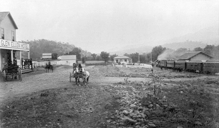 Glen Ellen, California. Train depot, train in station and Glen Ellen Hotel (and saloon) are visible.